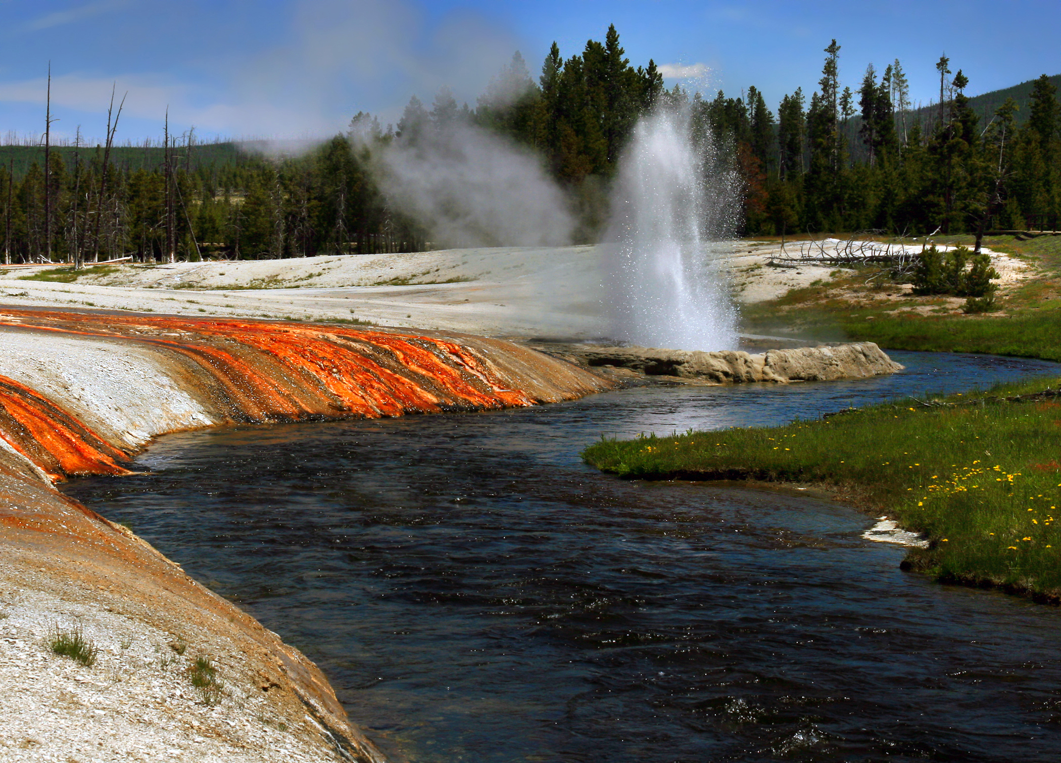 Cliff geyser and Firehole river at Black Sand Basin in Upper Geyser Basin in Yellowstone National Park